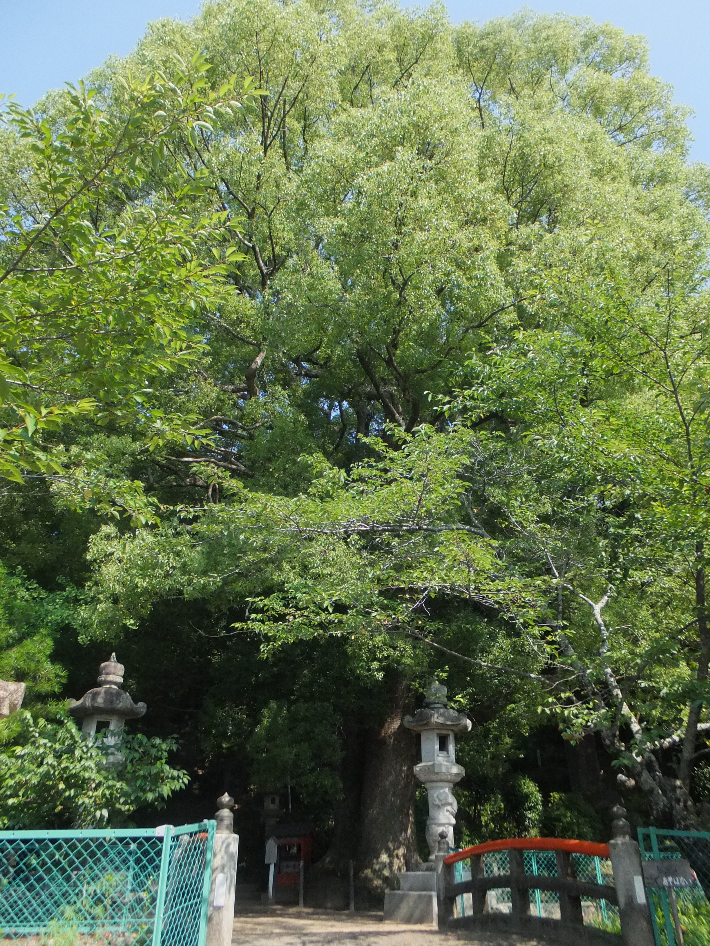 Yamanaka Hachimangu (山中八幡宮), located at 8 Miyashita, Maigi-cho, Okazaki, Aichi, Japan